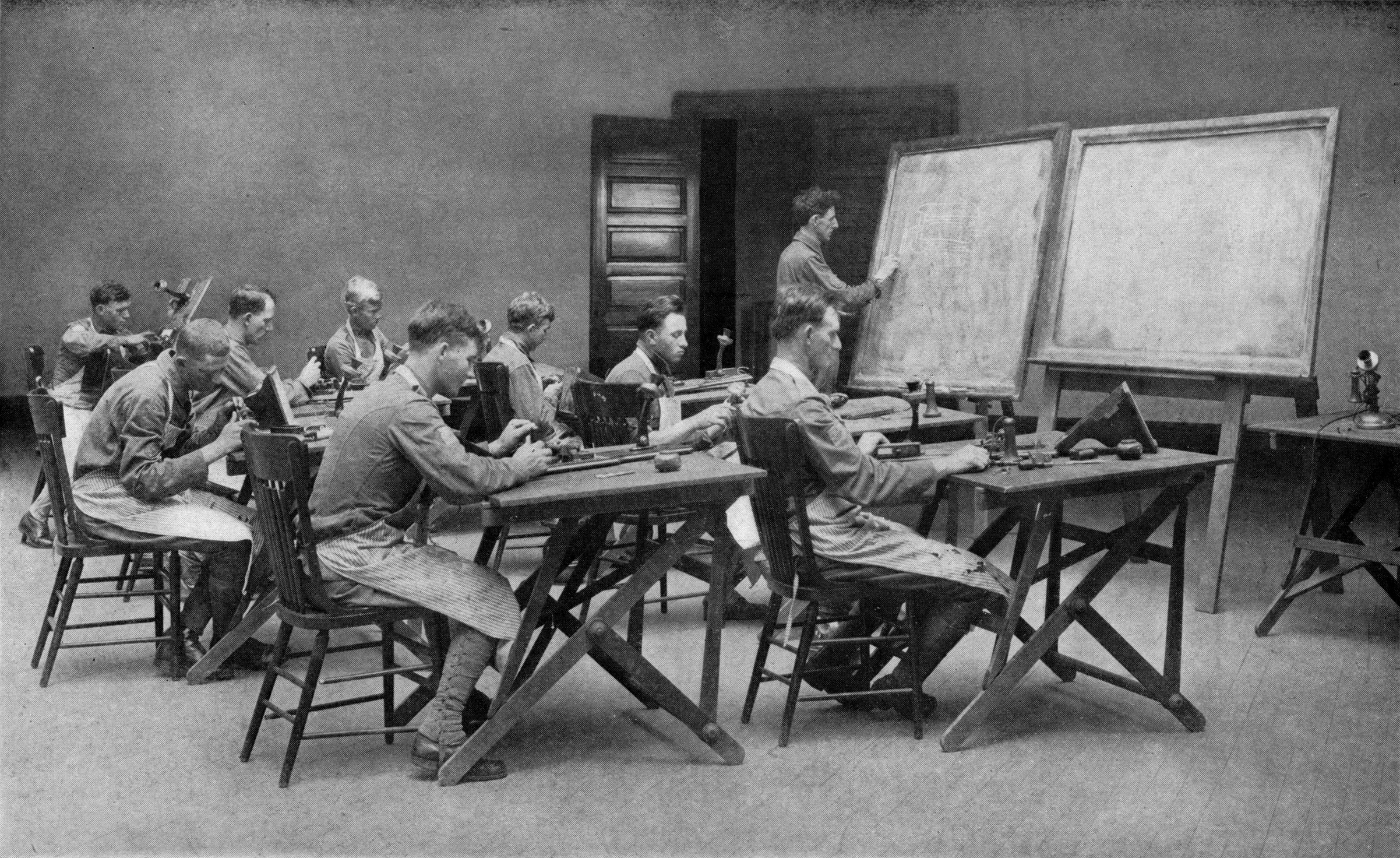 CLASS IN TELEPHONY: ENLISTED MEN, U. S. ARMY. The province of the telephone in modern warfare is constantly broadening. It is one of the agencies which has robbed battle of much of its picturesqueness, romance, and glamor; for the dashing dispatch rider on his foam-flecked steed is practically a being of the past, more antiquated than the armored knight of medieval days. A message sent by telephone annihilates space and time, whereas the dispatch rider would, in most cases, be annihilated by shrapnel.